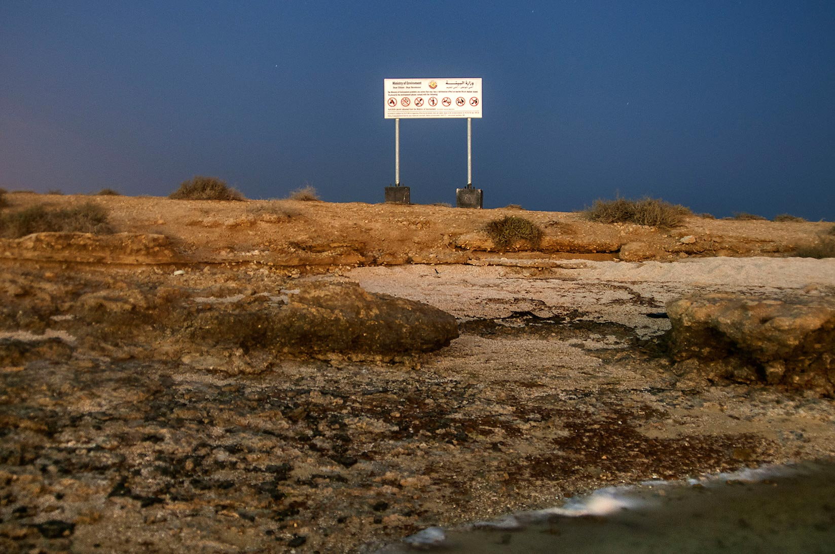 Environmental warning sign on Al Aaliya Island, Qatar. Situated just north of the Pearl, in Al Daayen Municipality.